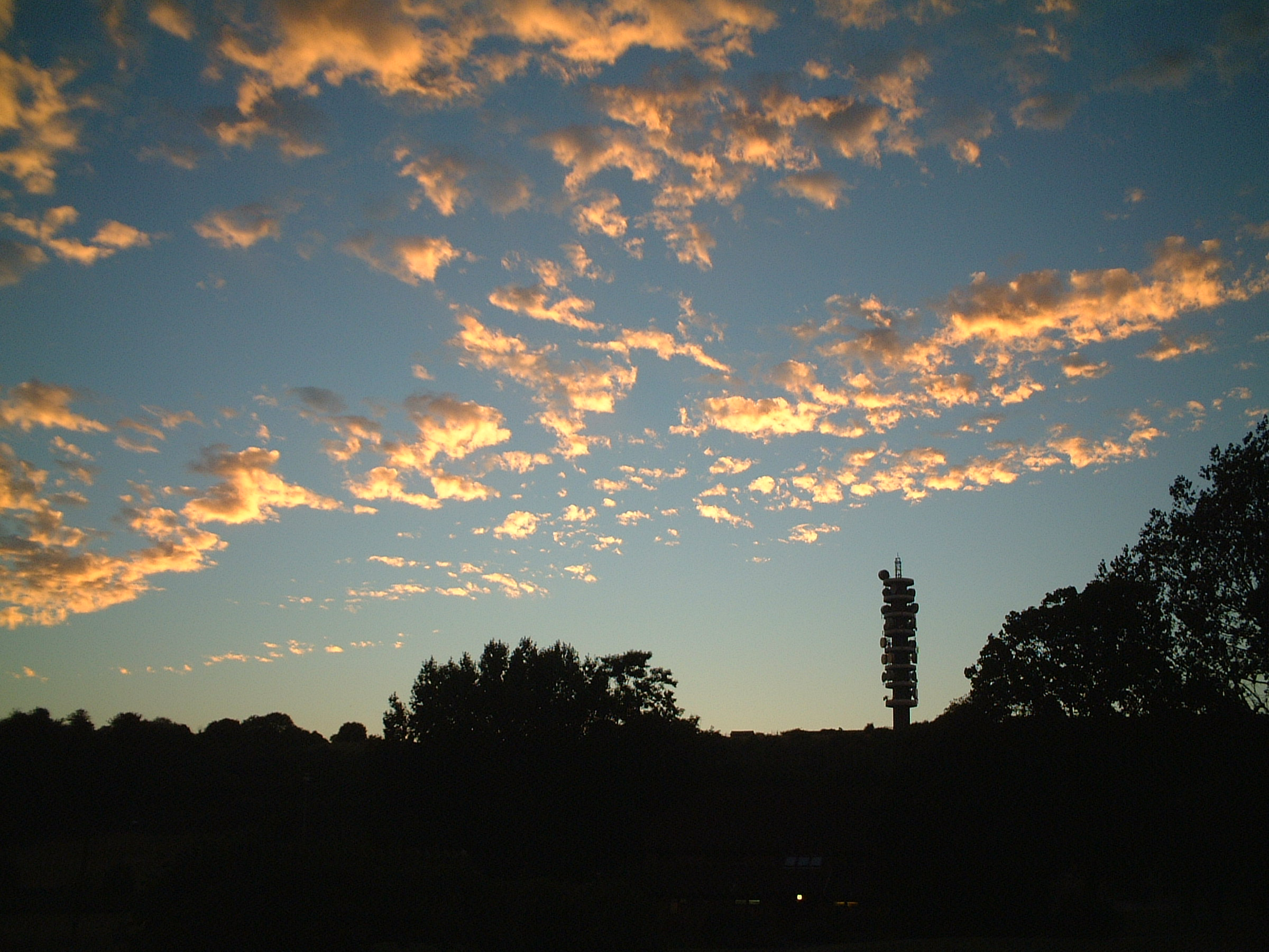 The sun set over Pur Down BT tower in North Bristol